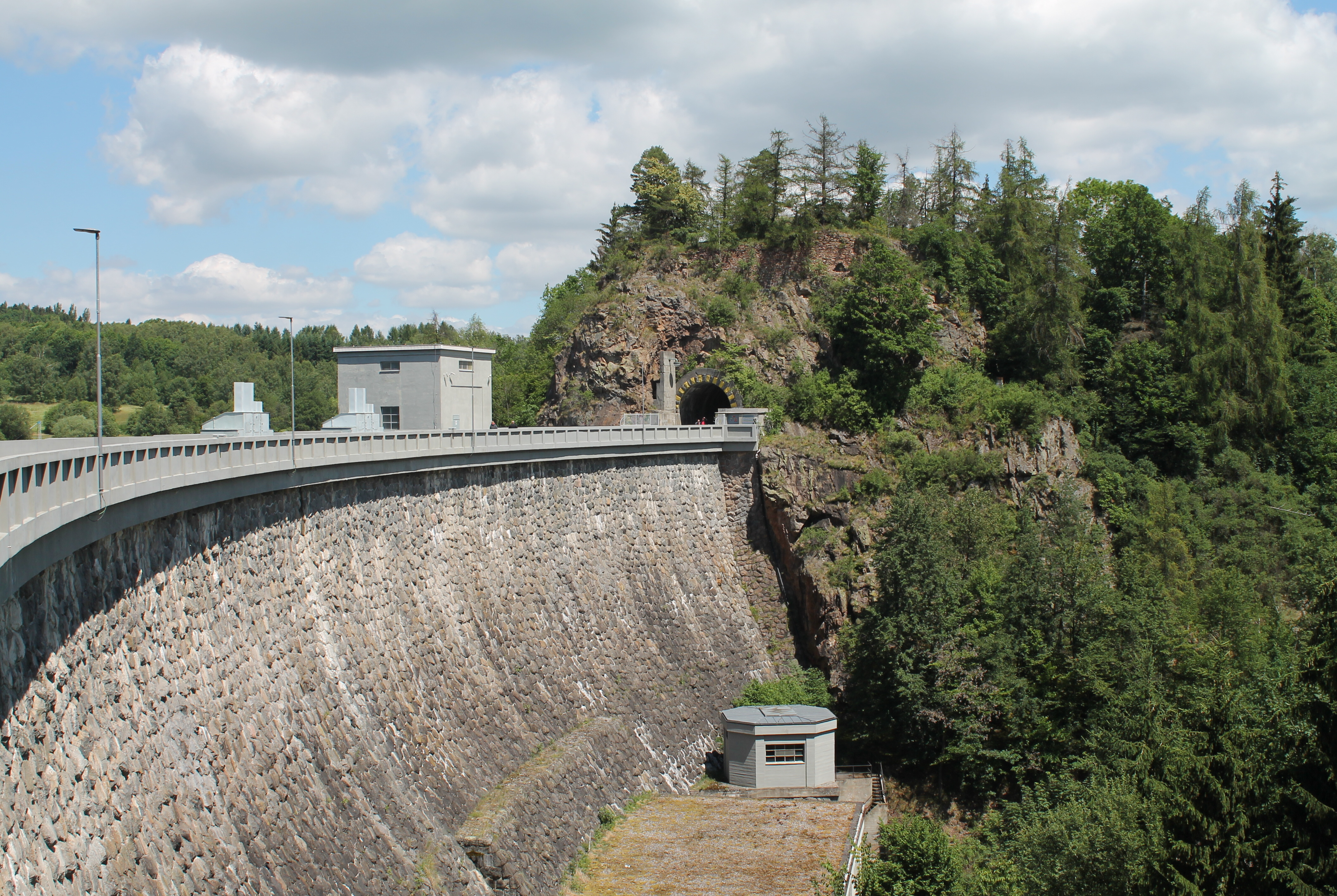 Seč Dam, Seč, Chrudim District, Czech Republic